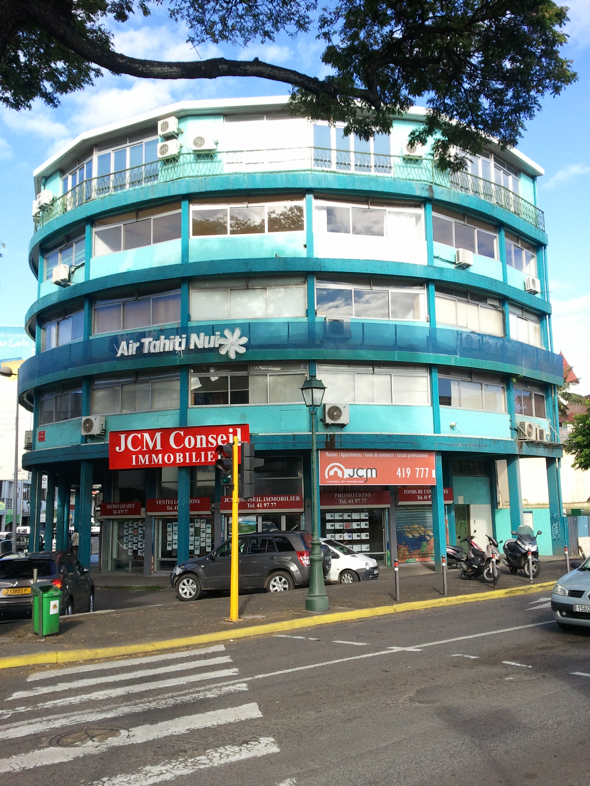 Immeuble Dexter, the head office of Air Tahiti Nui - Pont de L’Est, Papeete